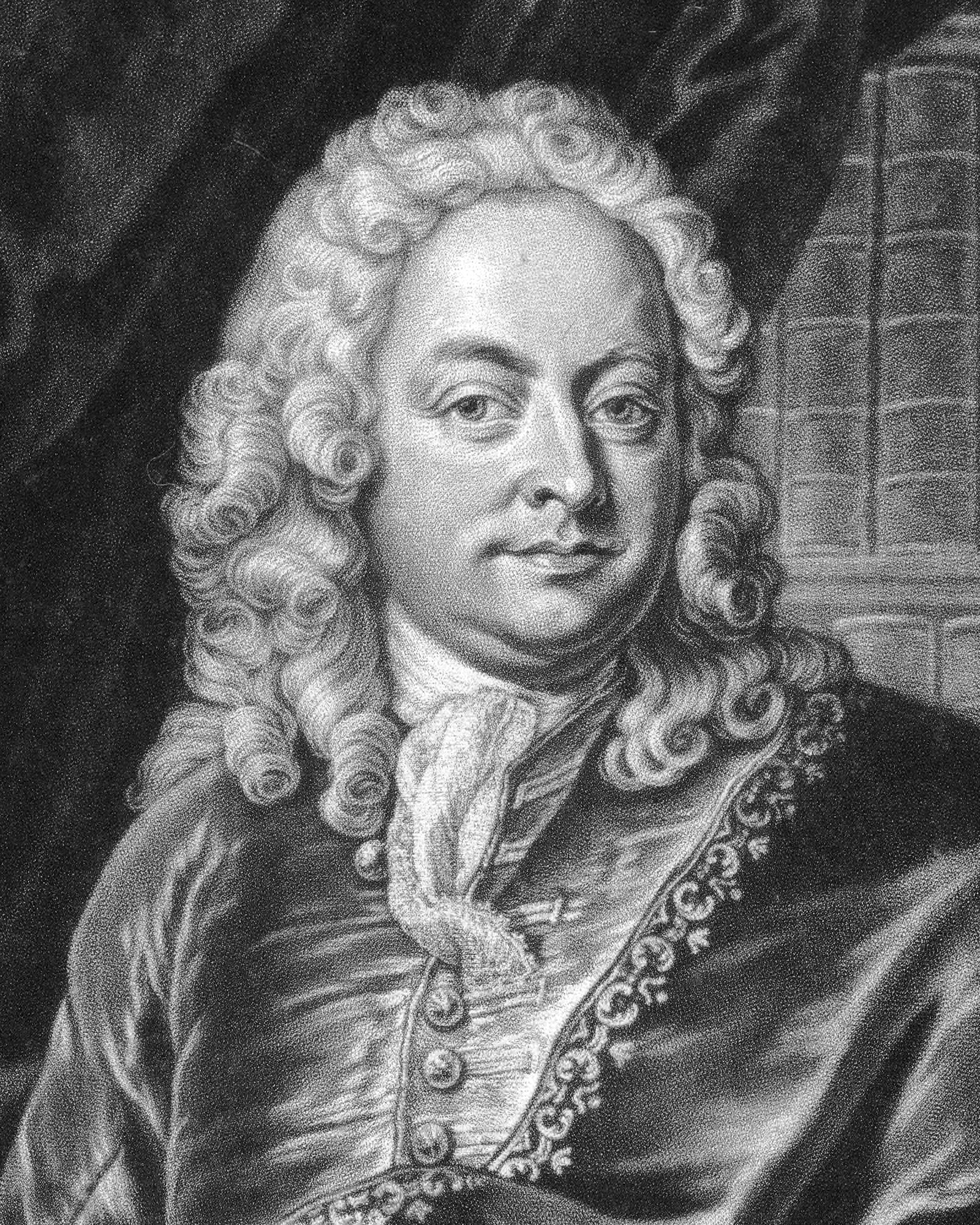 Portrait of Johann Mattheson